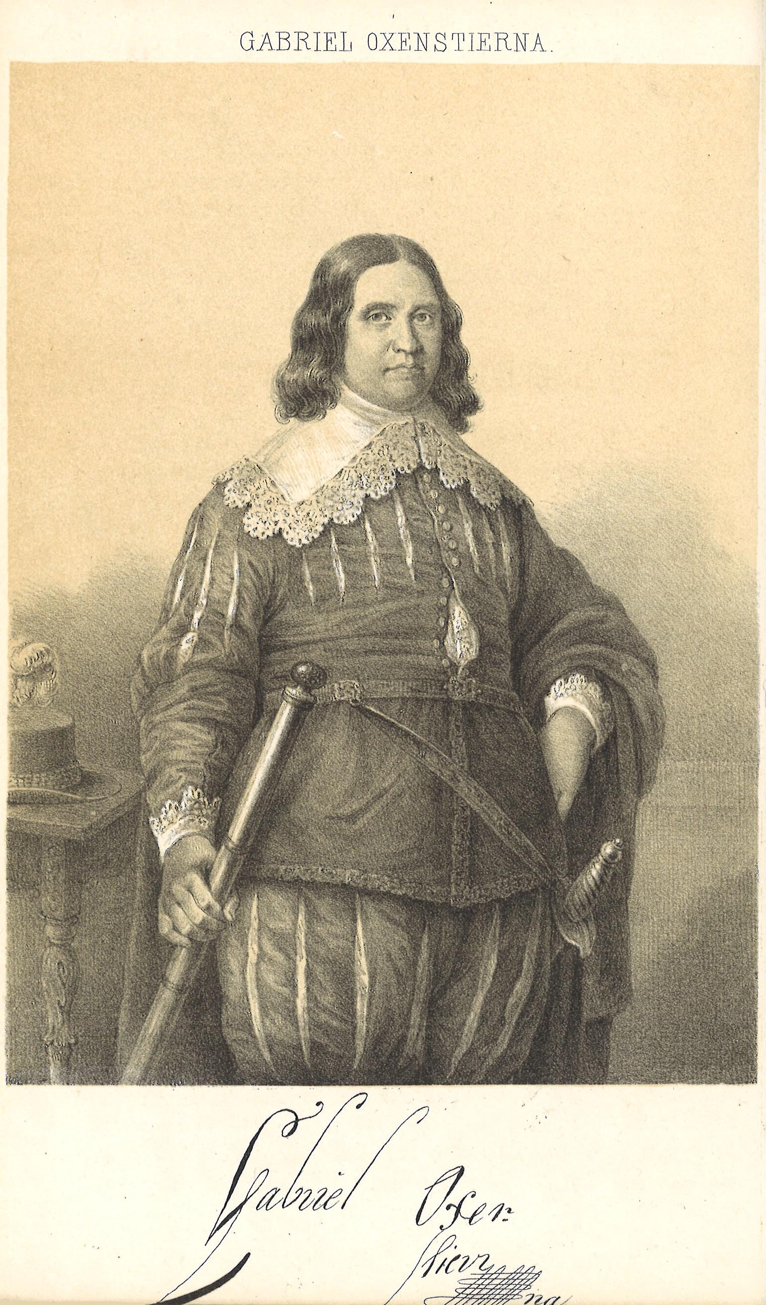 Gabriel Gabrielsson Oxenstierna af Croneborg (1618-1647), Swedish baron, courtier and "" (chairman of the estate of nobility).